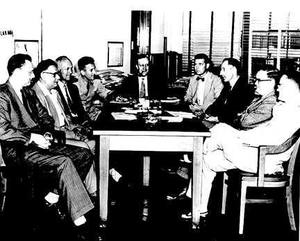 Members of the Project VANGUARD Staff meet with Dr. John P. Hagen, Director of Project Vanguard at the U.S. Naval Research Laboratory, Washington, D.C. Left to right: Dr. J.W. Siry, Head of Theory and Analysis Branch; Mr. D.G. Mazur, Manager of the Vanguard Operations Group, PAFB, Florida; Mr. J.M. Bridger, Head of the Vehicle Brance; Cdr. W.E.Berg, Navy Program Officer; Dr. Hagen; Mr. J. P. Walsh, Deputy Project Director; Mr. M.W. Rosen, Technical Director; Mr. J. T. Mengel. Head of Tracking and Guidance Branch and Dr. H. E. Newell, Jr., Science Program Coordinator.